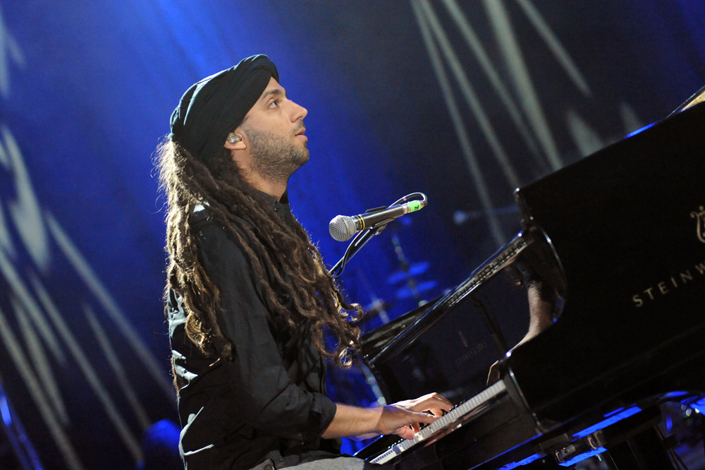 Israeli musician Idan Raichel performing in Warszawa in September 2011.